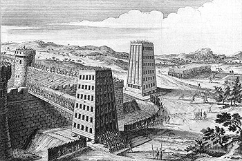 engraving from 18th century